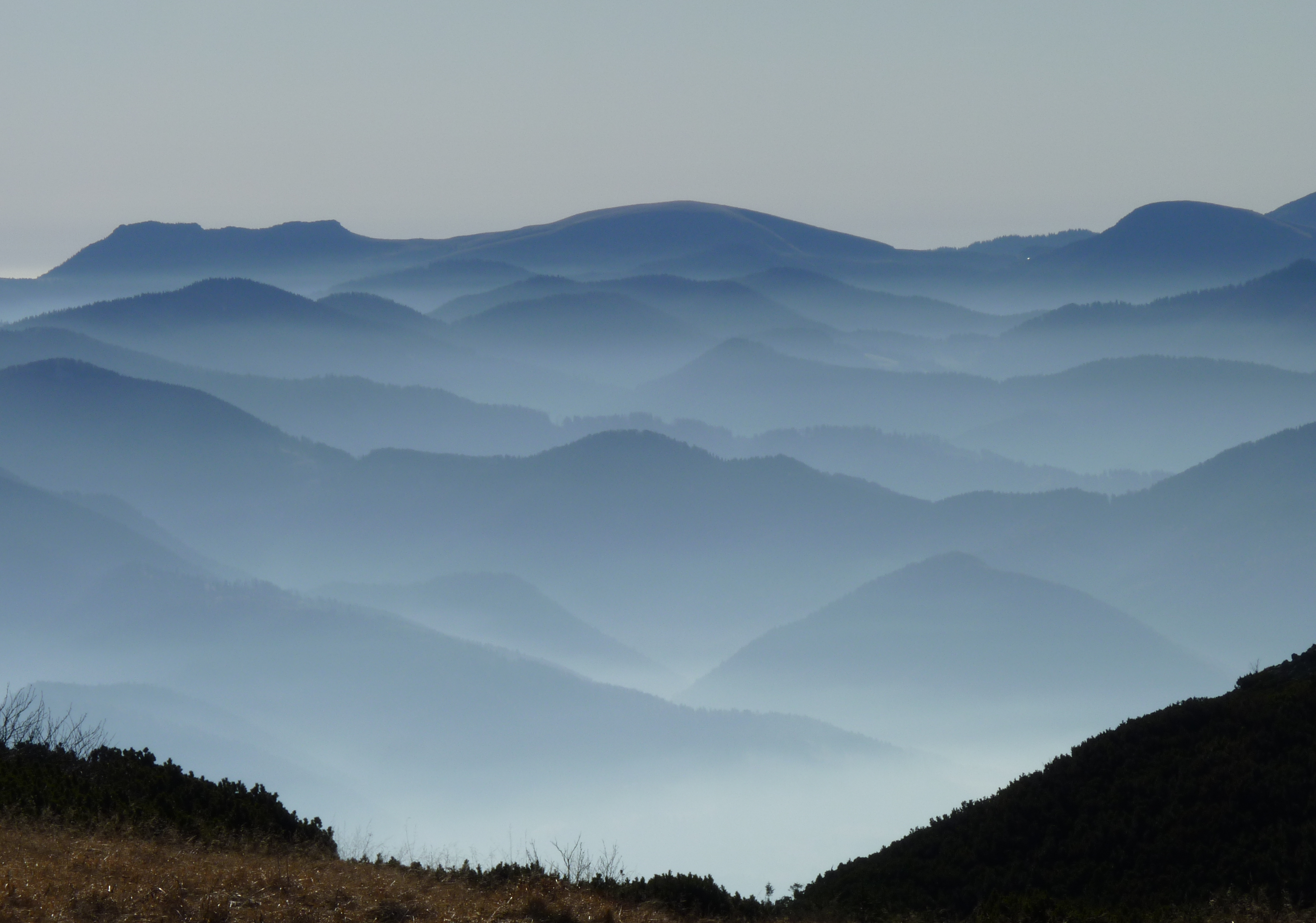 View from Velký Kriváň on National Park Lesser Fatra, Slovakia